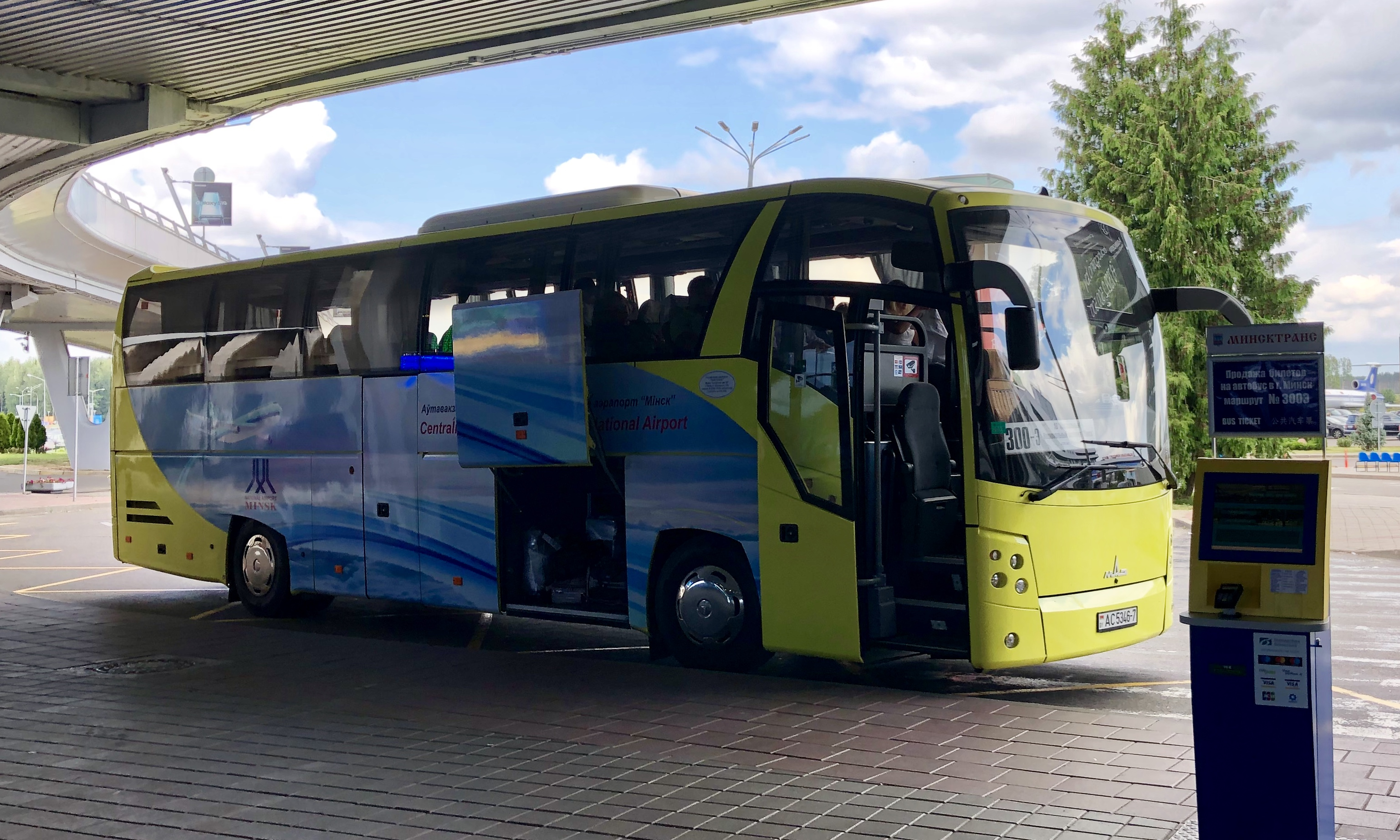 Bus №300Э departing from Minsk National Airport